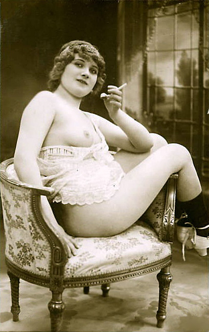 Old photo: French postcard labelled "JA SERIE 0106". For another photograph from the same session, see File:JA-Serie-0106_French_postcard.jpg